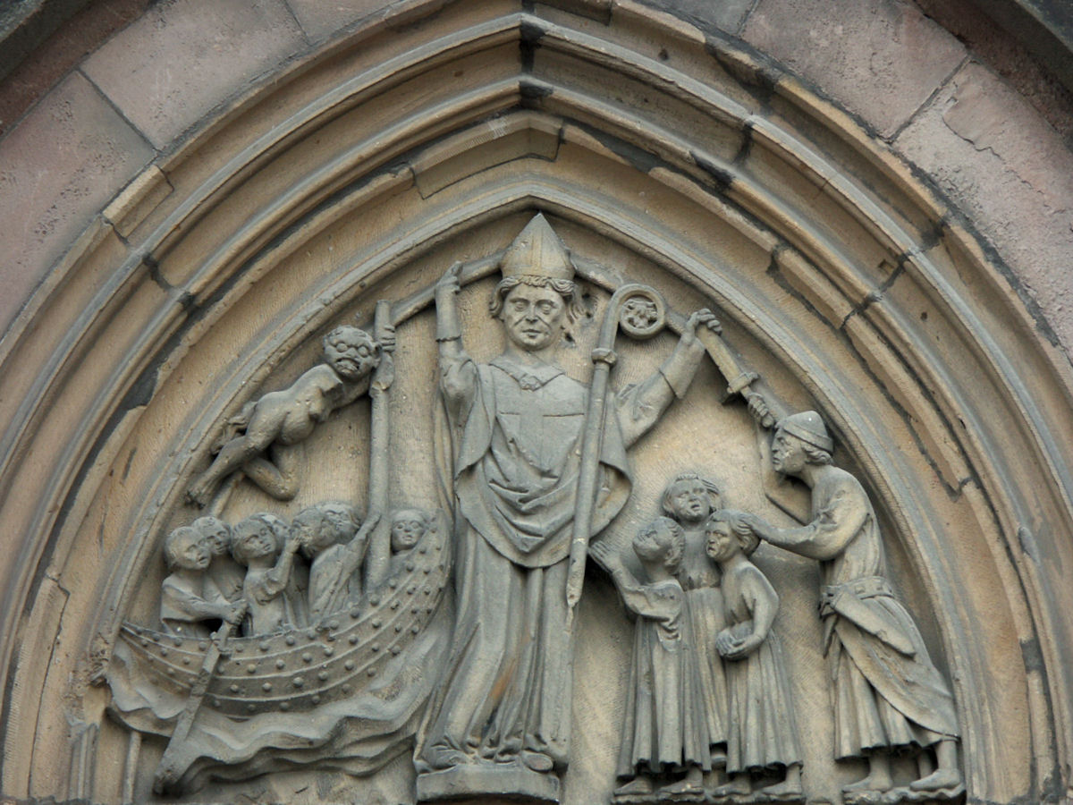 Cathedral St. Peter (Dom St. Peter), Worms, Germany